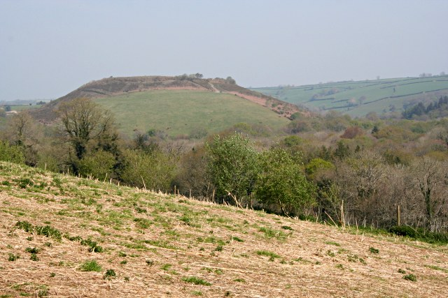 Cadson Bury Fort This high hill on the Lynher Valley is topped by an Iron Age Hill Fort. The view is from the roadside near Lower Crift, just over a kilometre south of the fort.